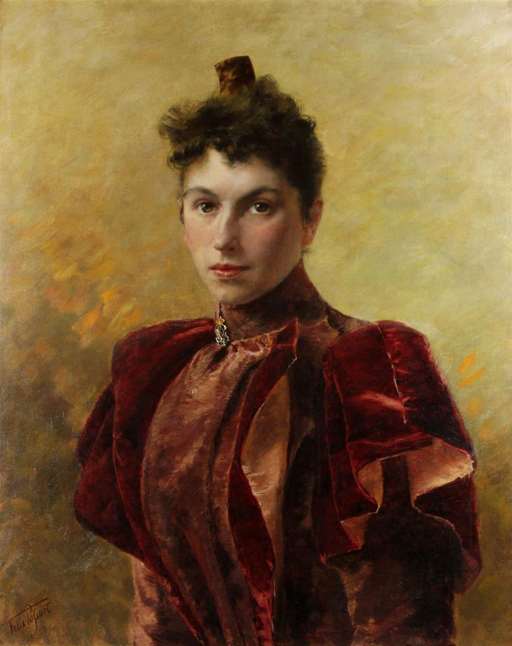 Felix Possart: Portrait of Princess Irene of Hesse and by Rhine, 1893. Oil on canvas: 28 1/2 x 23 in